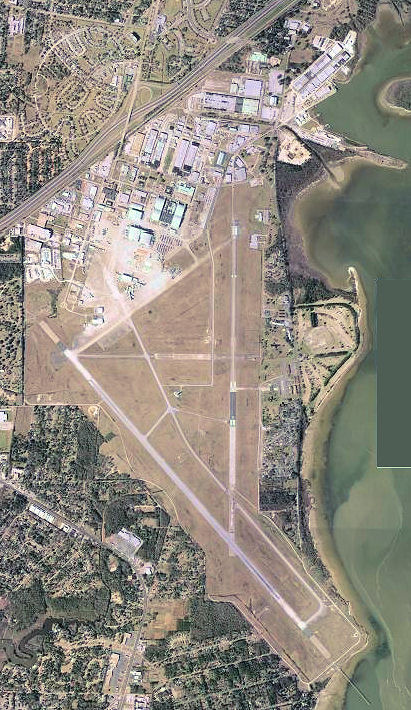 Aerial image of Mobile Downtown Airport, Alabama